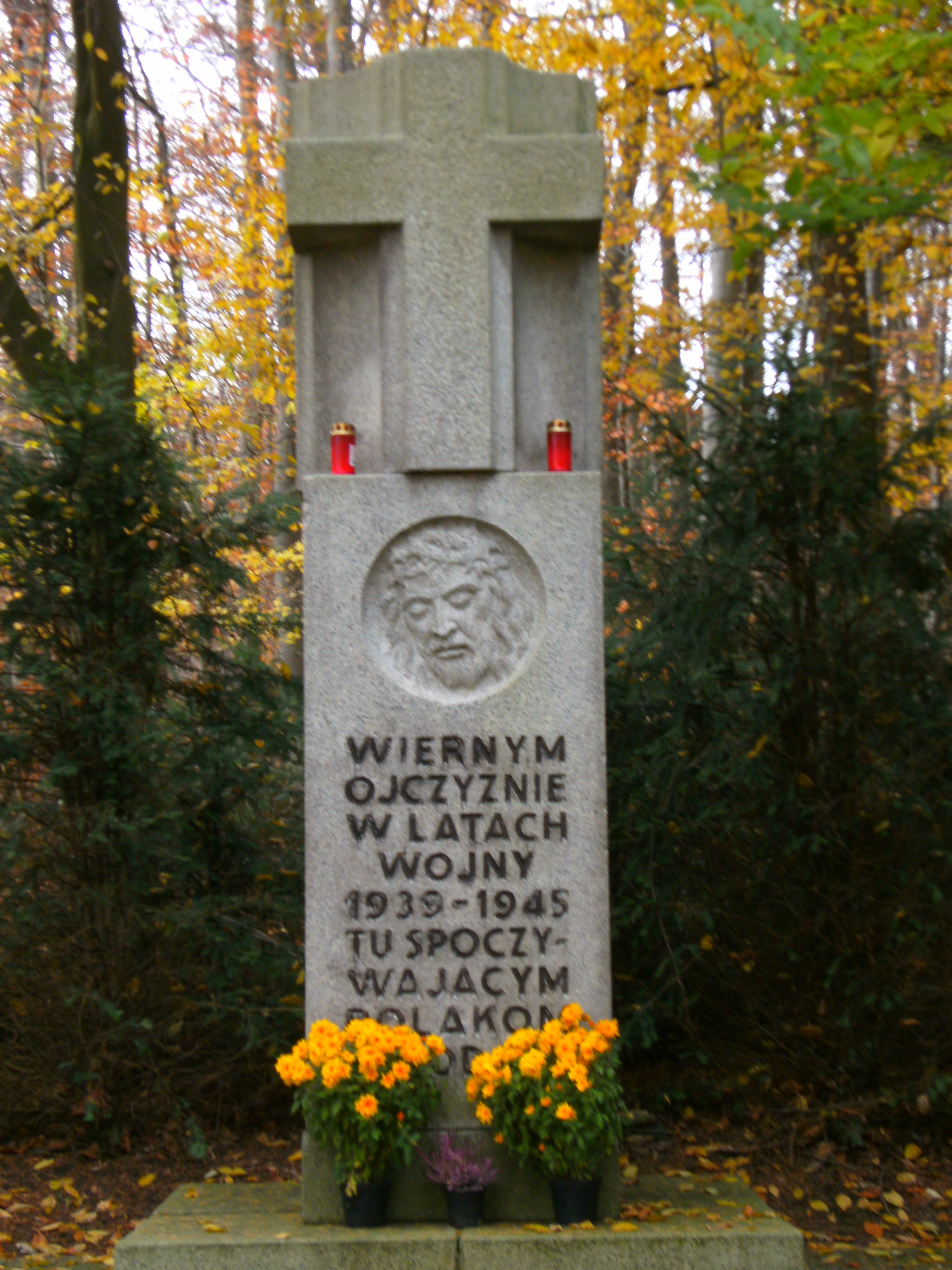 Monument on Cap Arcona cemetery Scharbeutz-Haffkrug (Ehrenfriedhof Cap Arcona in Scharbeutz-Haffkrug) for forced laborers from Poland who deceased.